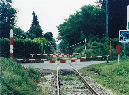 Bemberg branch line